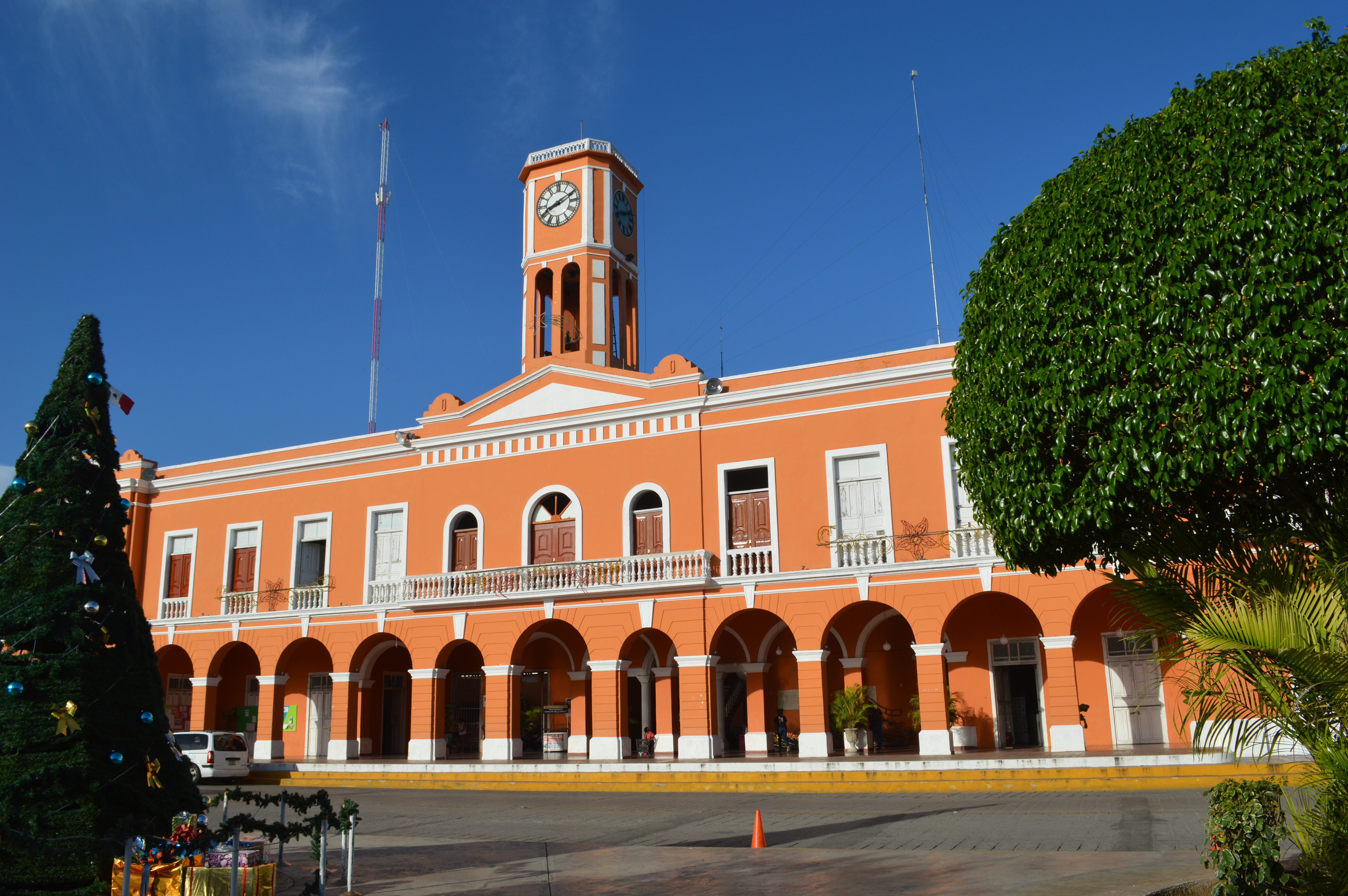 Municipal hall in Motul, Yucatan, Mexico